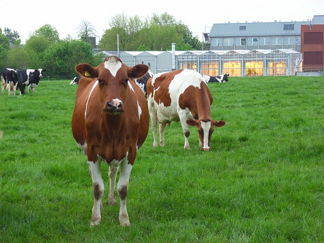 Pasture and glasshouses, Jealott's Hill The Syngenta Seeds research establishment.